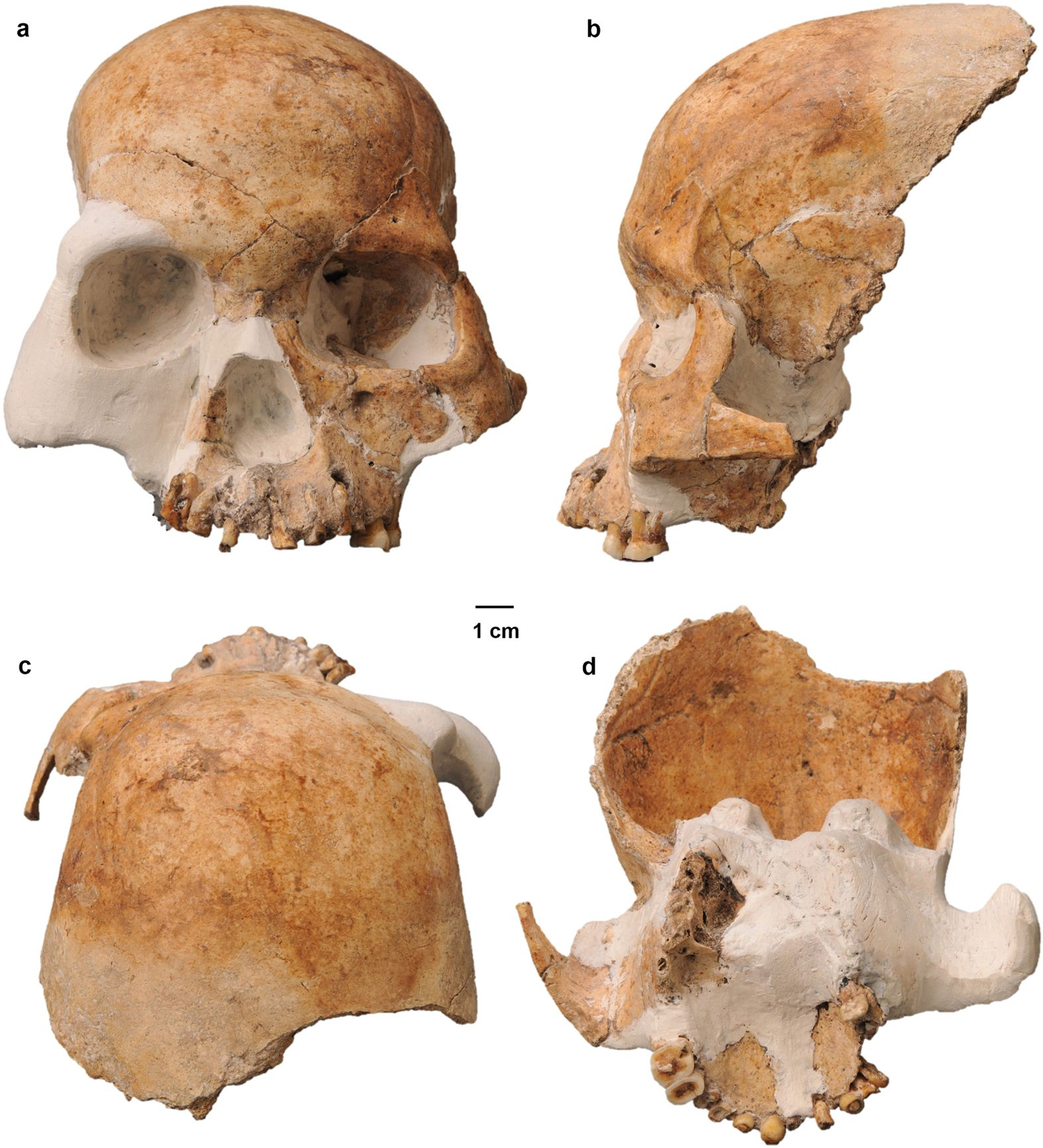 Longlin 1 skull, Late Pleistocene of China